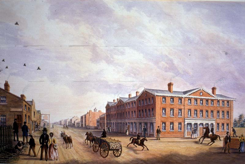 The intersection of King and York Streets, looking east along King Street. Toronto, Canada. The building on the southeast corner is the Chewett Building, designed by John Howard in 1833. When built, it was Toronto's first office block and the largest single structure in town. It included offices, shops, residences, and the British Coffee House (a hotel).